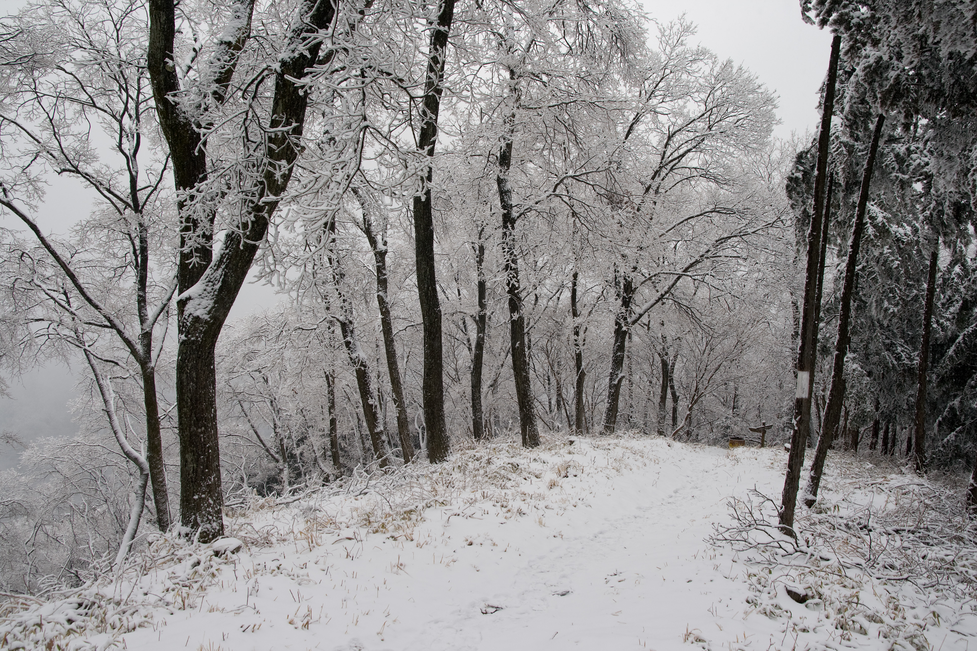 Mt.Kariyose, Tokyo, Japan.